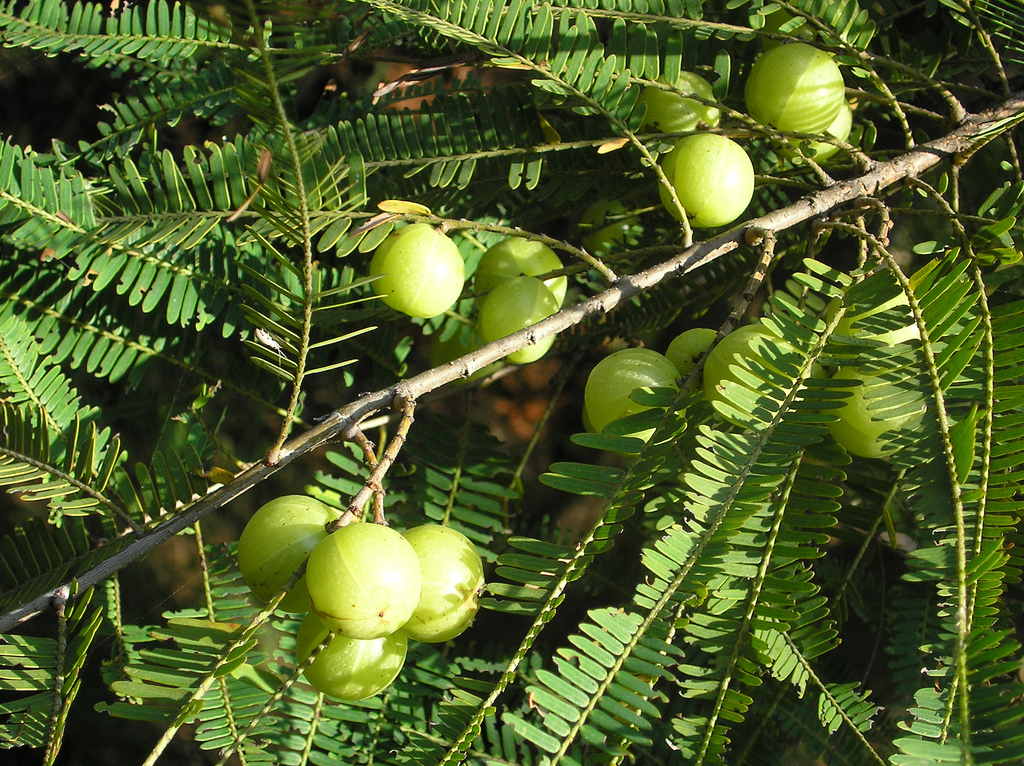 Fy: Euphorbiaceae, The amla fruits. It has several medicinal properties. The fruits are used to prepare pickles in Souh India.